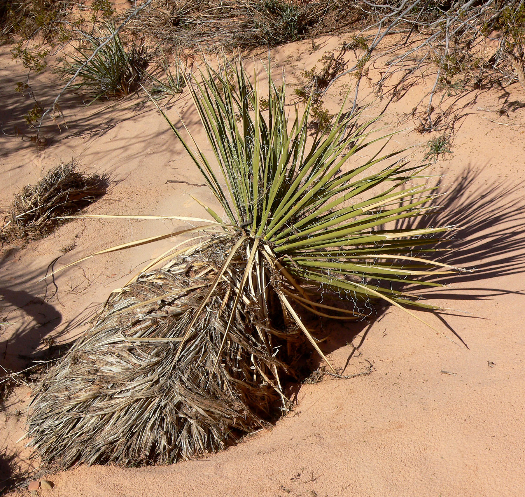 Yucca utahensis in the White Domes area, Valley of Fire, southern Nevada